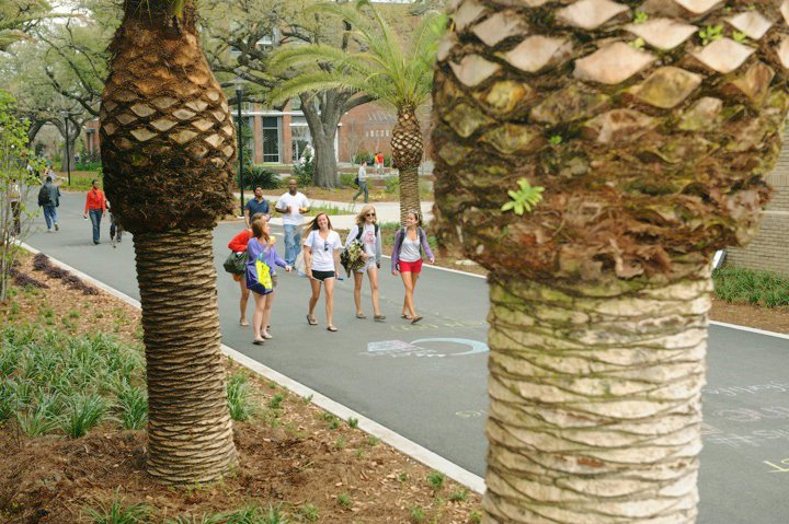 McAlister Place with the Freeman School of Business in the background